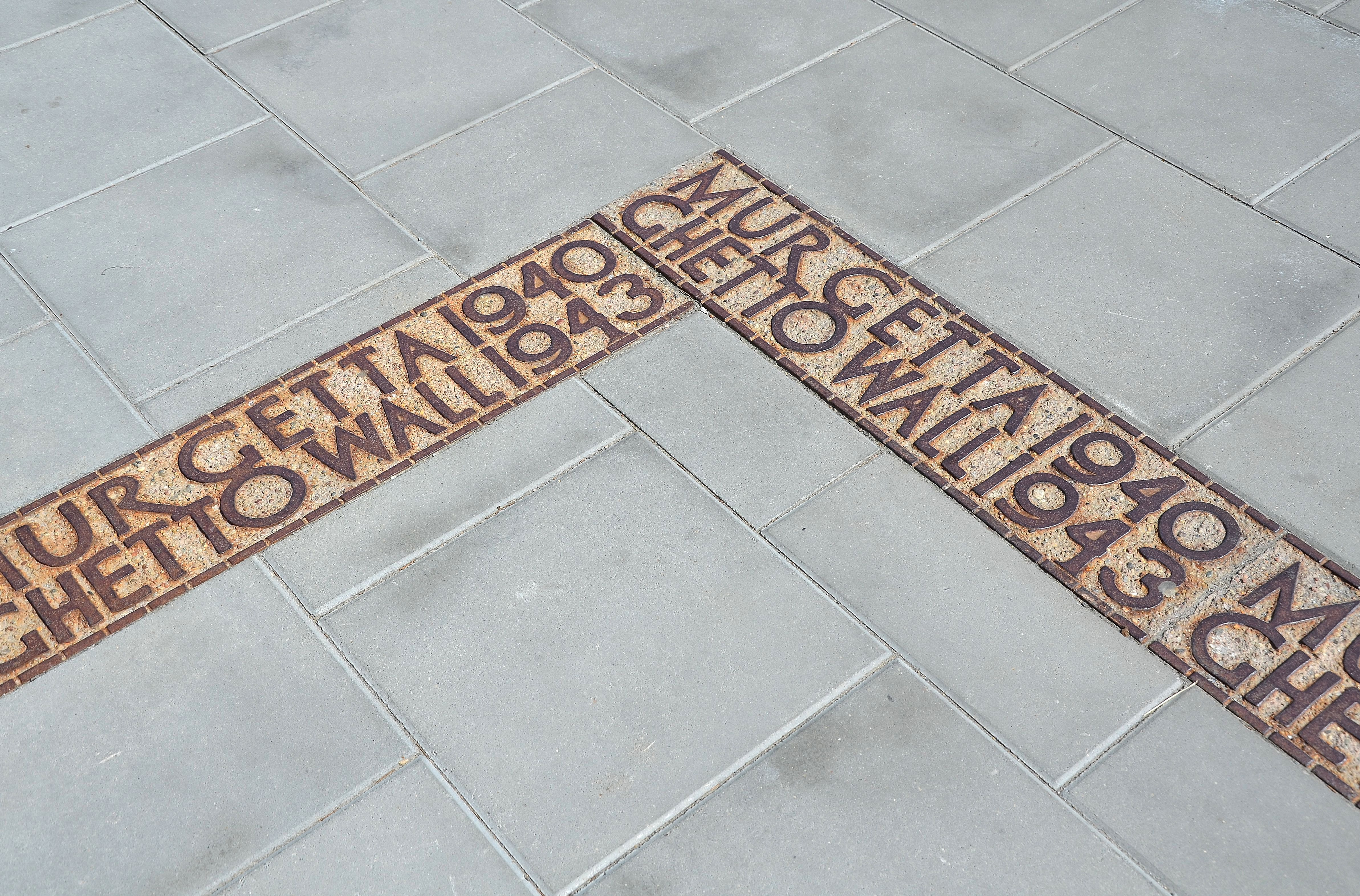 Pavement marker of the Warsaw Ghetto wall near the Palace of Science and Culture in Warsaw